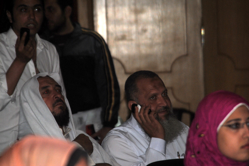 Members of Jemaa Islameya attending the conference on the No Military trials for Civilians